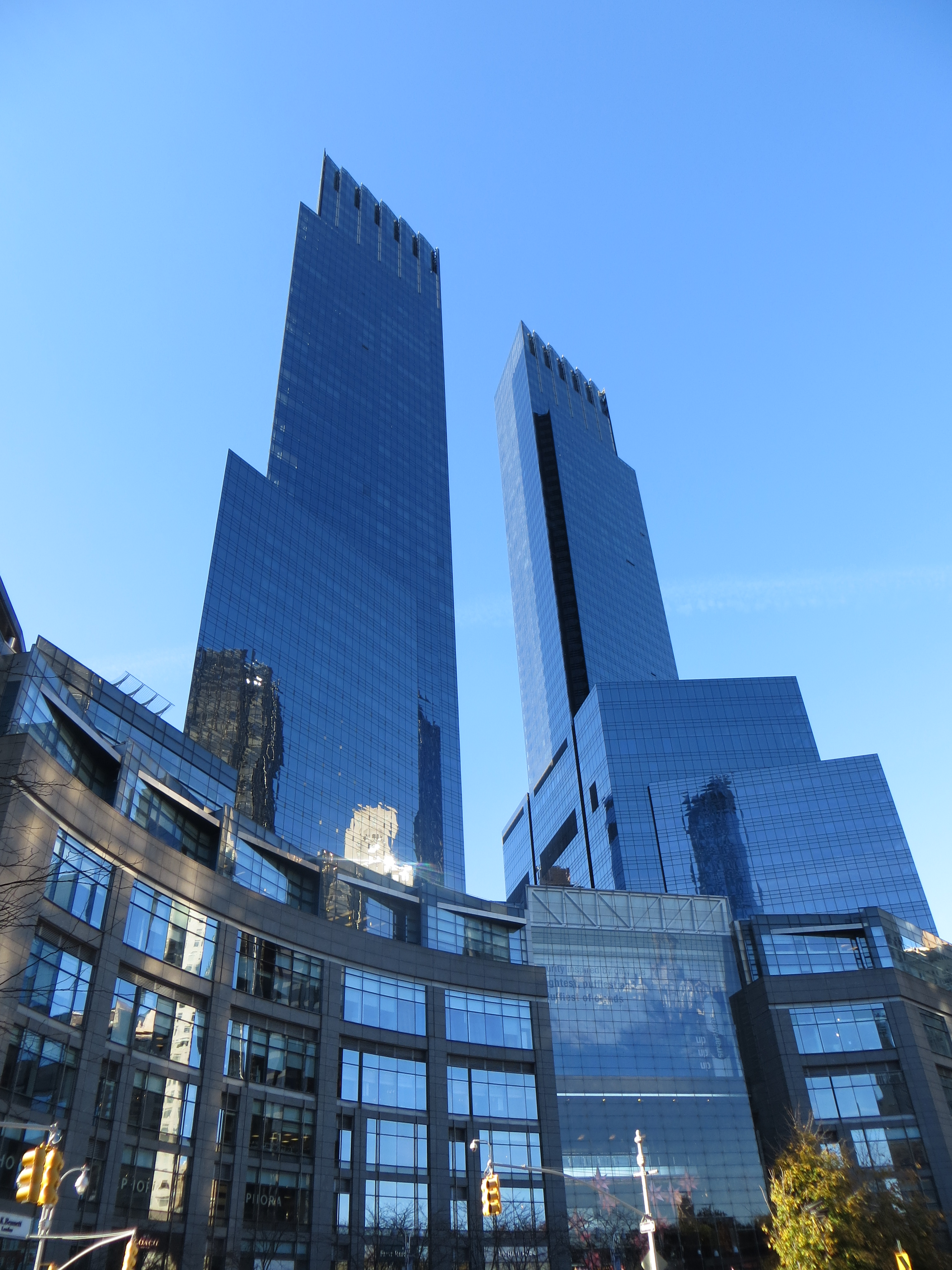 Time Warner Center